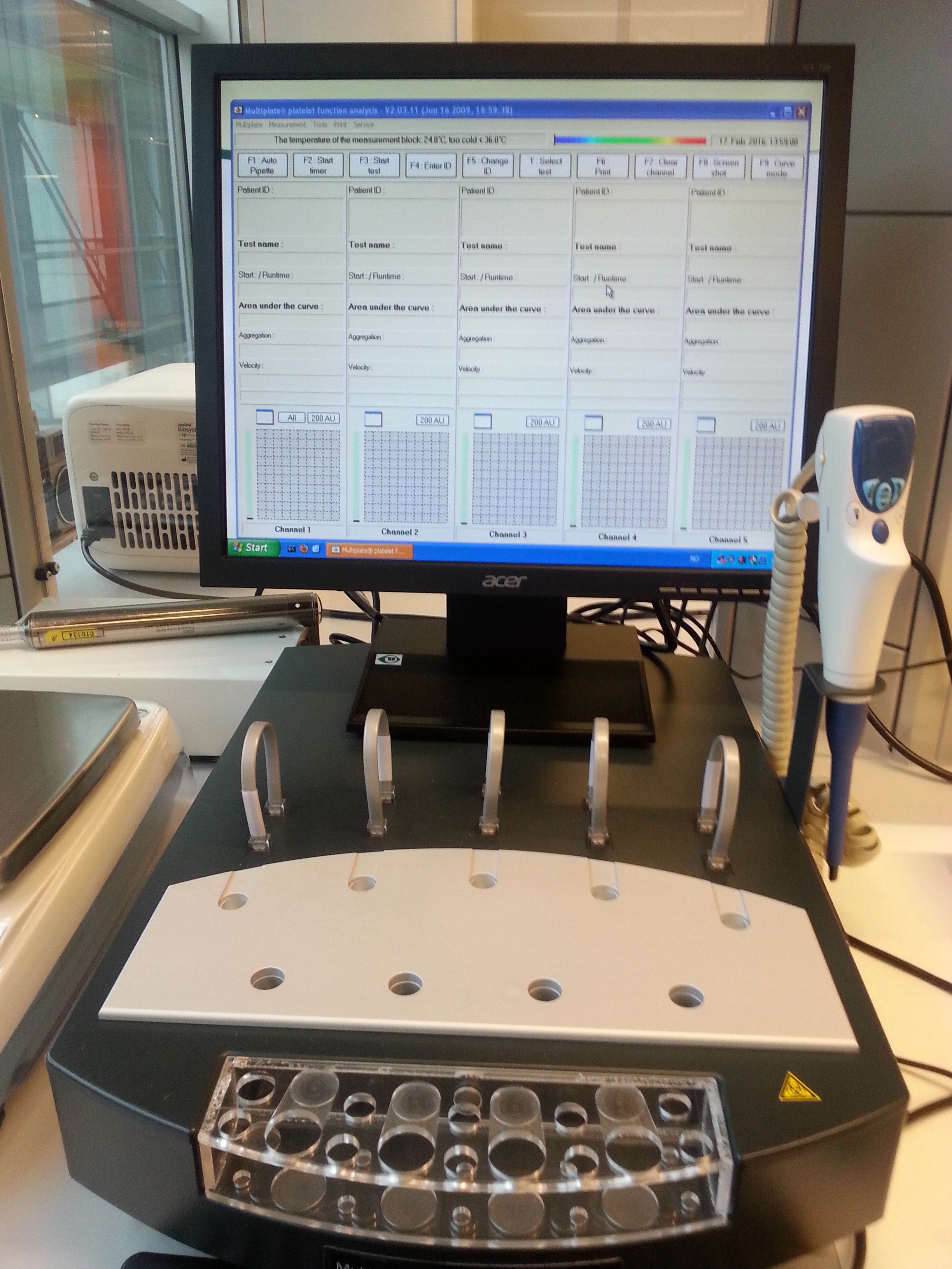 A picture of the Multiplate Analyzer